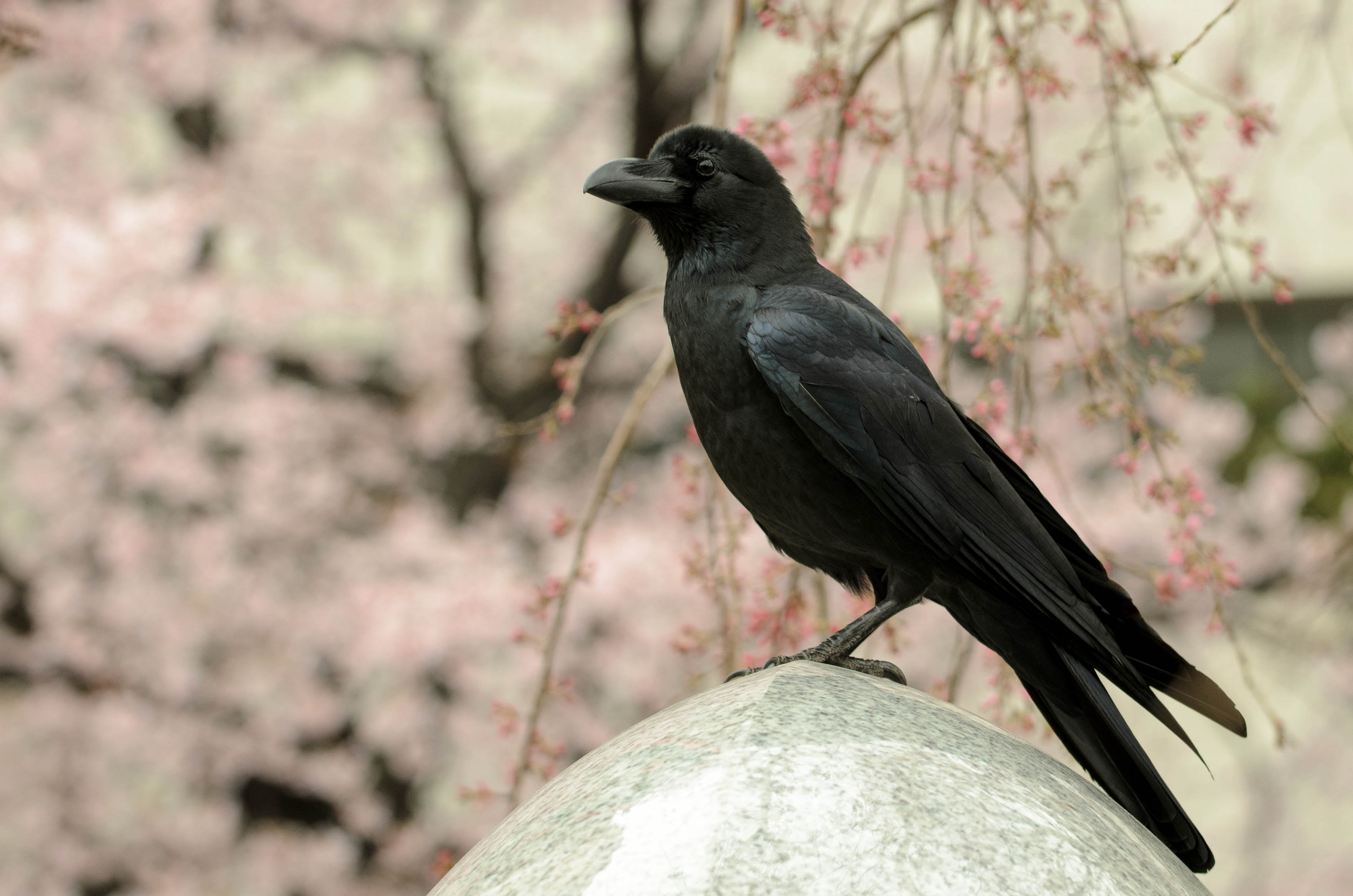 Large-billed Crow (Corvus macrorhynchos) at Cherry Blossoms (Sakura), Ueno park, Tokyo